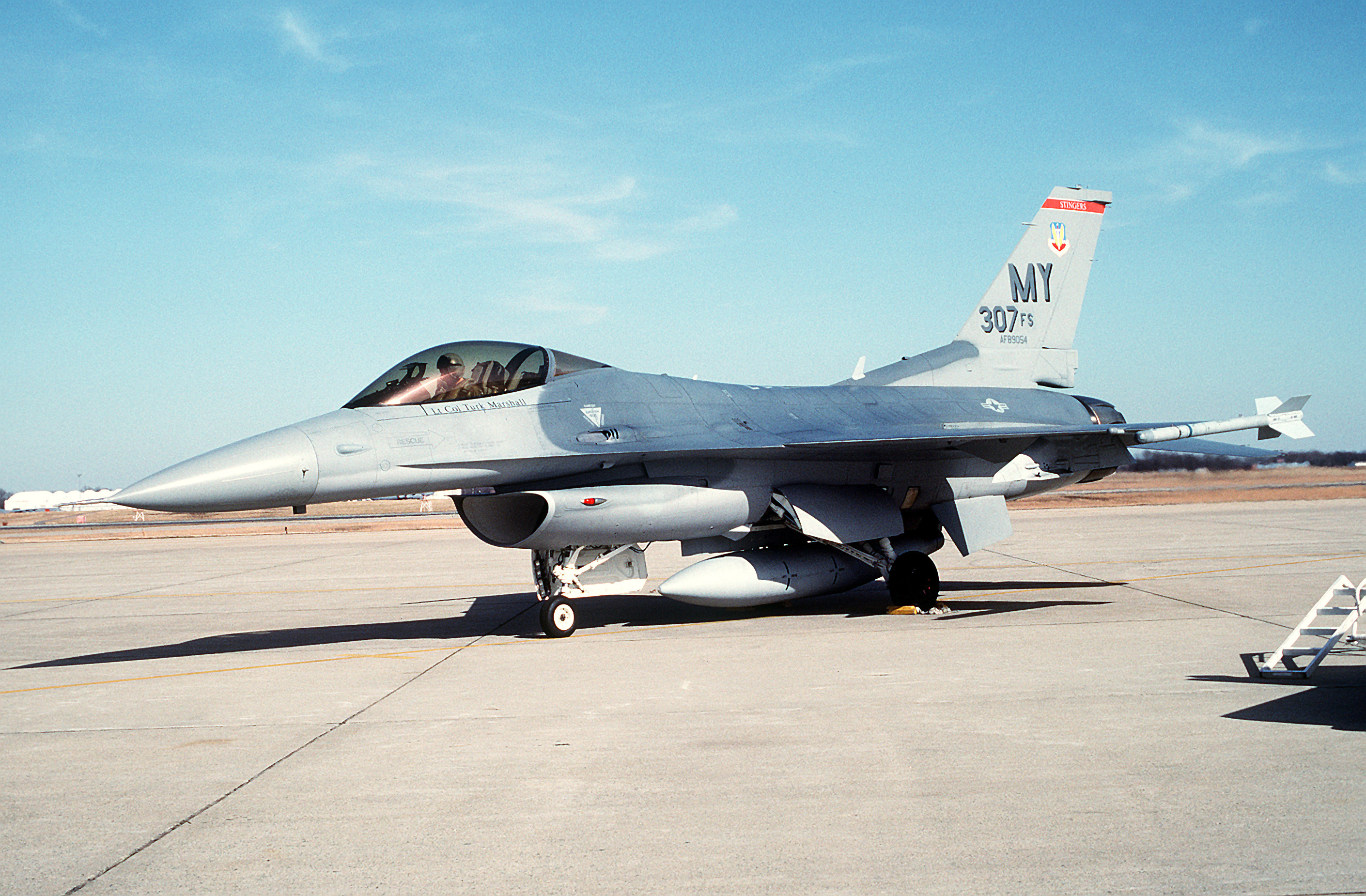 A U.S. Air Force General Dynamics F-16C Block 40E Fighting Falcon (s/n 89-2054) of the 307th Fighter Squadron, 347th Fighter Wing, based at Moody Air Force Base, Georgia (USA) at Andrews Air Force Base, Maryland (USA), as the pilot performs a preflight check prior to a mission.